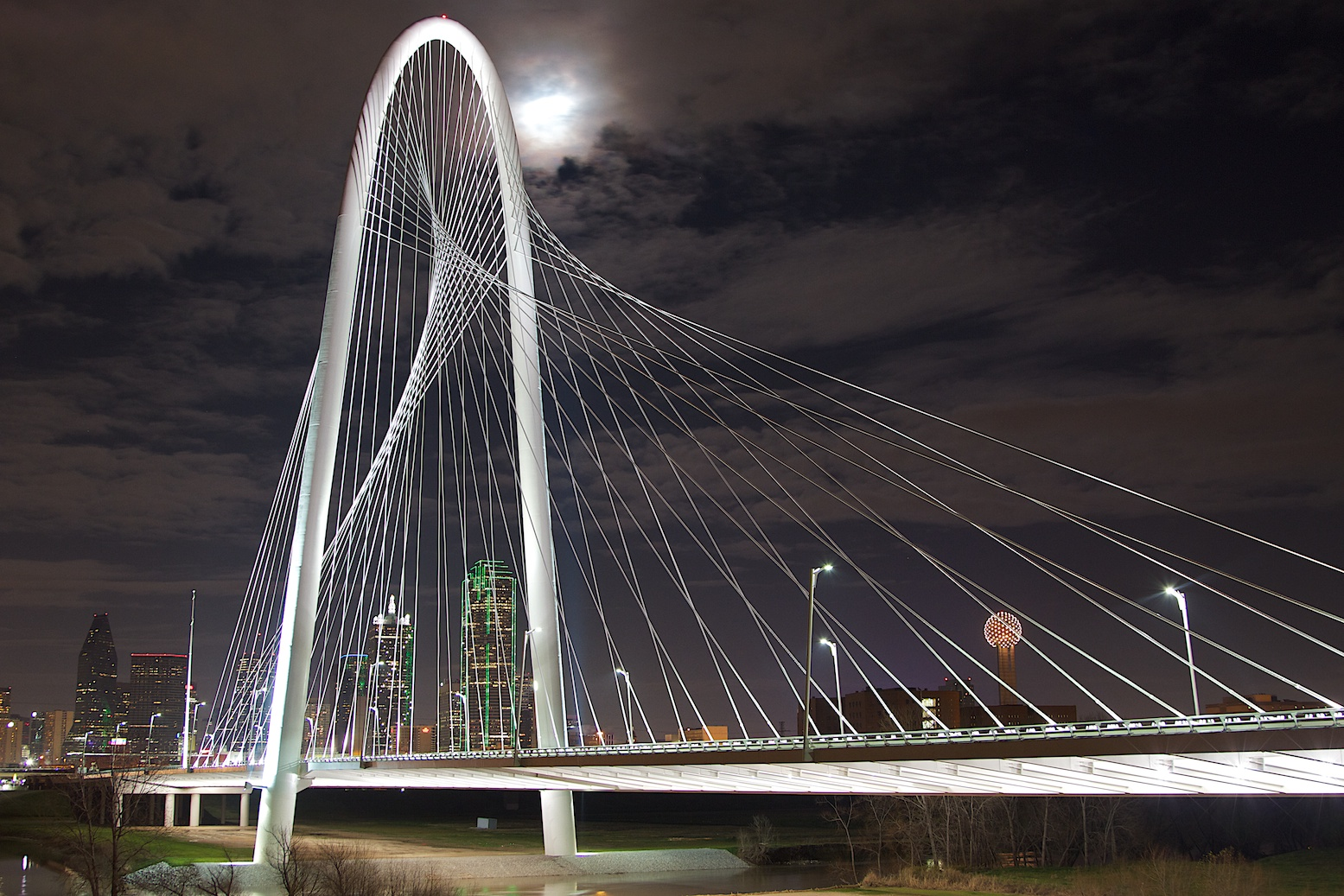 The inaugural lighting of the Margaret Hunt Hill Bridge.